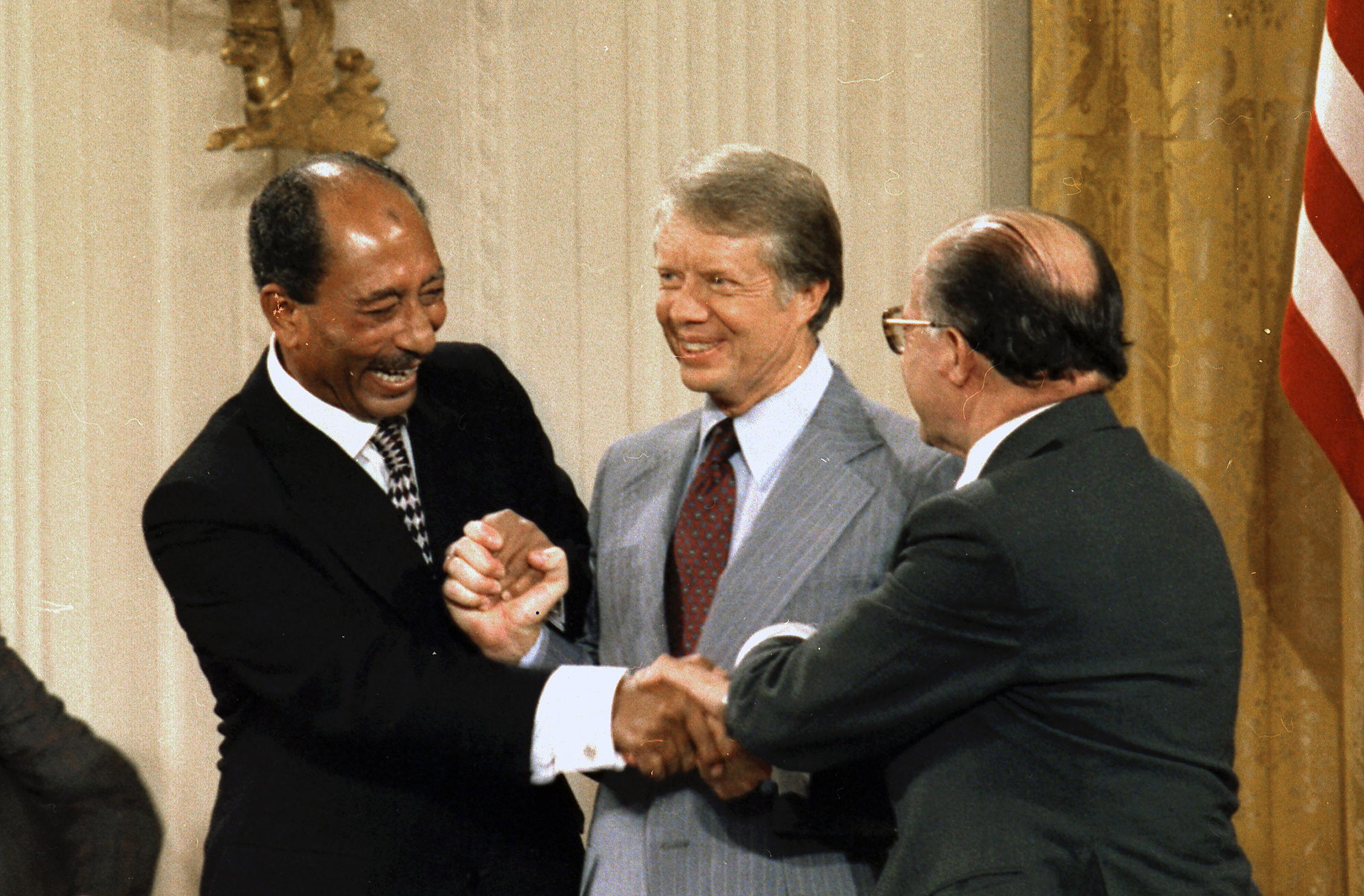 Egyptian President Anwar Sadat (left), U.S. President Jimmy Carter (center), and Israeli Prime Minister Menachem Begin shakes hands at the conclusion of the Camp David Peace Accords signing ceremony in the East Room of the White House on September 17, 1978.